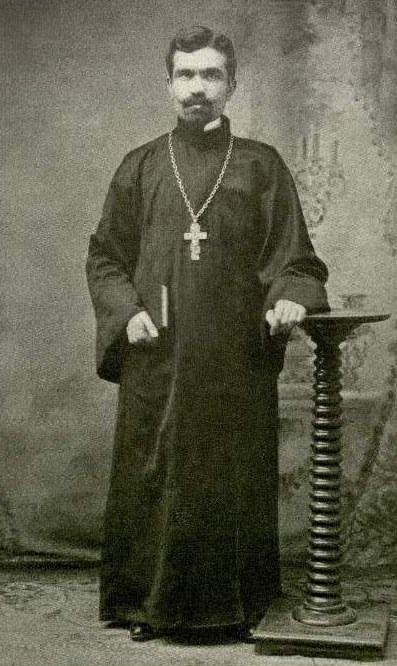 A young Fan Noli as priest in 1908